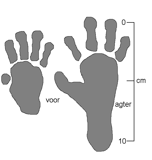 The spoor of the Vervet monkey (Chlorocebus aethiops').